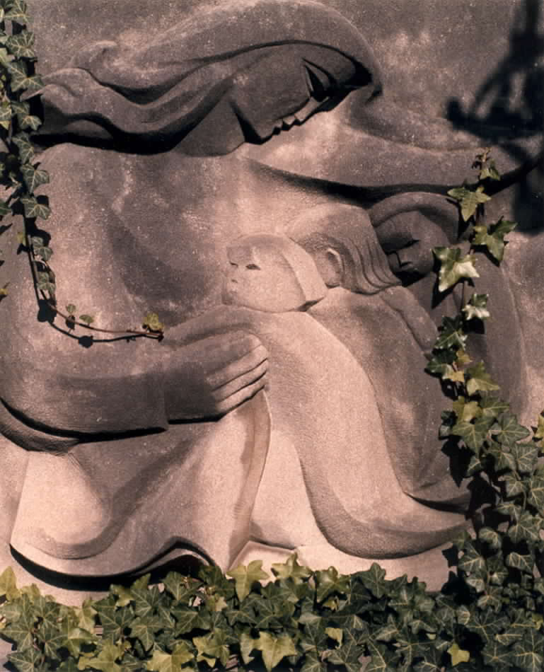 Willoughby Miller Memorial, detail, Kellog Building, University of Michigan, Ann Arbor, MI. This work was a WPA project